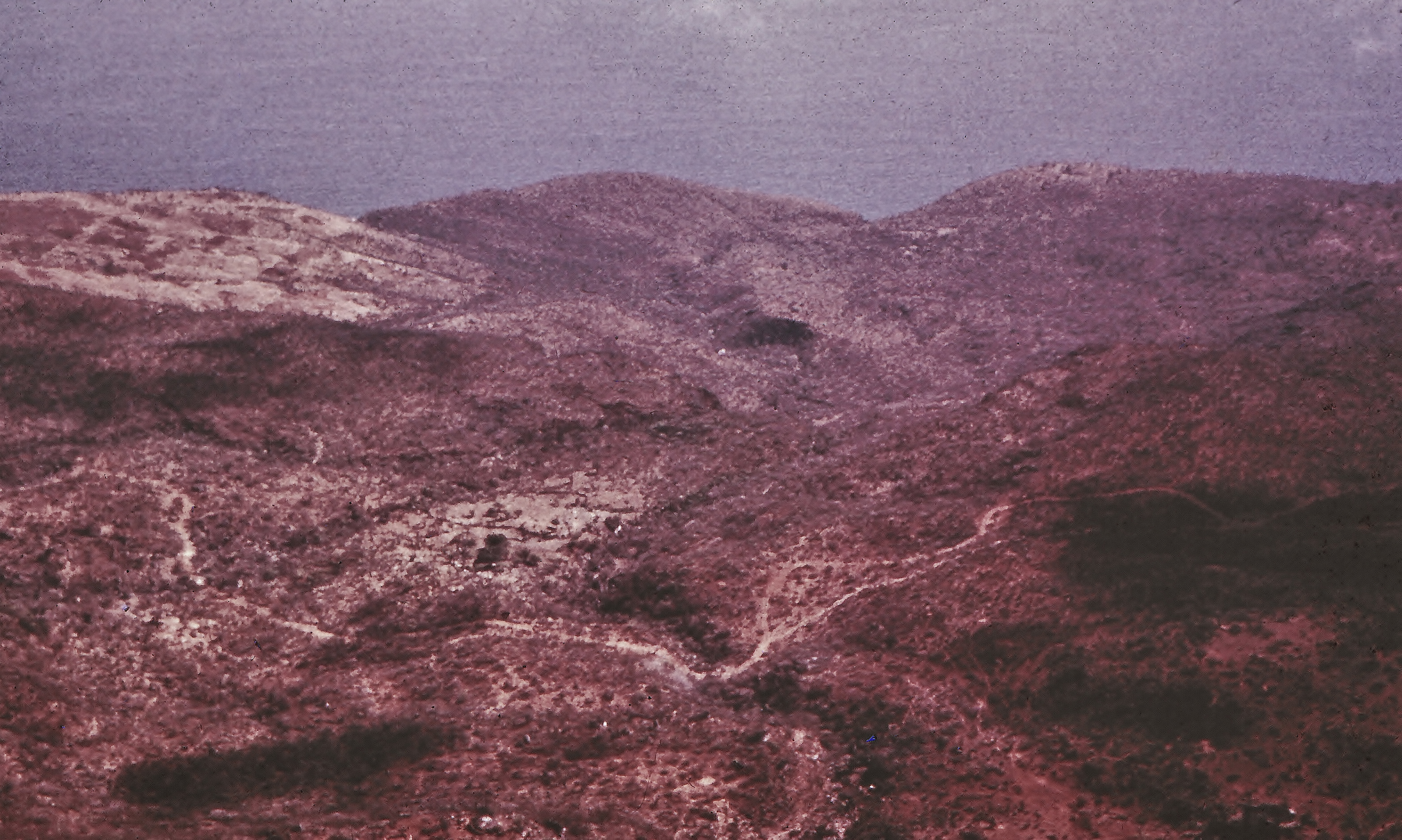 The Dhofar War. The view from "Simba " looking over the edge of the 1000 ft precipice to the fertile 'ledge' below which led to another 1500 ft steep escarpment into the Indian Ocean. This is a view from ' Black ' ( a location on 'Mainbrace ') showing the track from PDRY ( to the right of photo) used by the adoo(enemy) to re-supply the insurgents operating against the Sultan in Dhofar. Such resupplies, including heavy weapons, usually involved camels or donkeys. By occupying "Simba" this resupply route used by the insurgents was compromised.